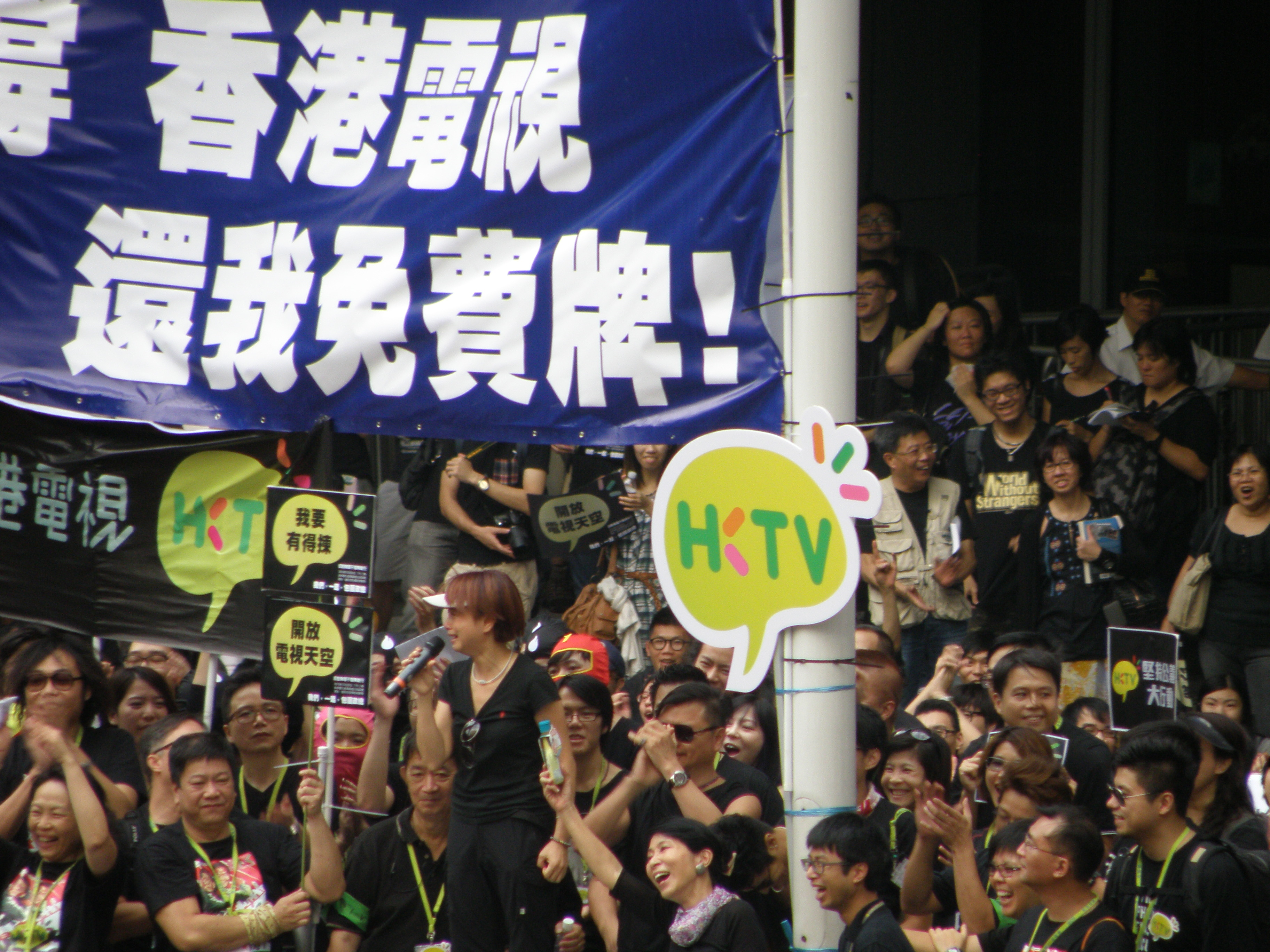 Protests against the HKSAR government's decision to refuse a free-to-air broadcast licence to Hong Kong Television.